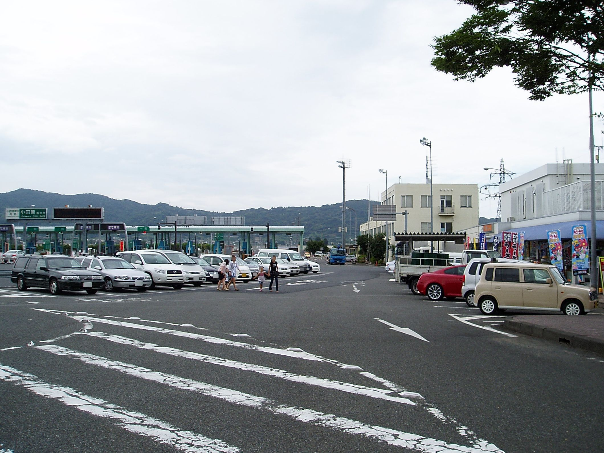 Odawara Periking Area, Route 271 in Japan